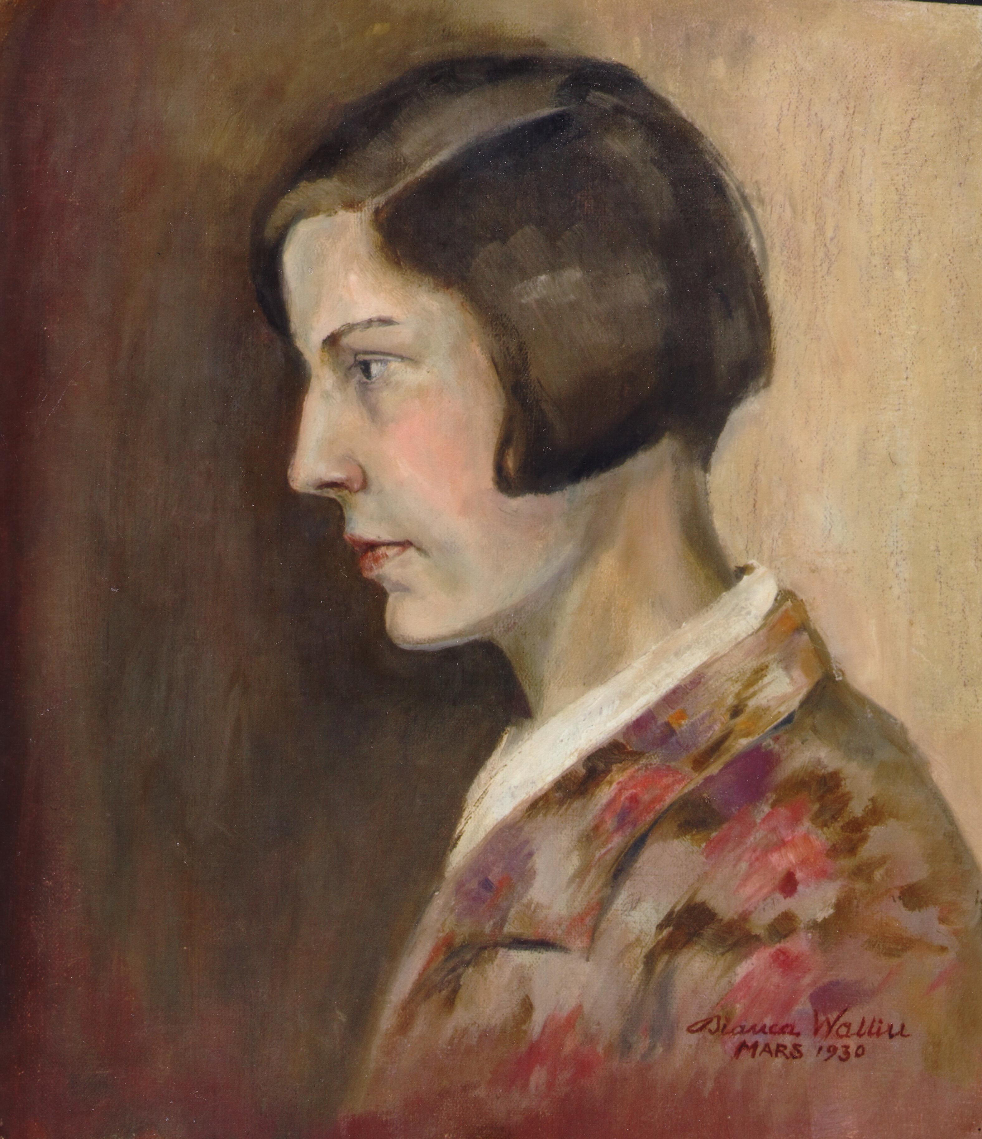 The portrait in oil is painted by the artist Bianca Wallin (1909-2006) in March 1930 in Stockholm, when they both studied at the art school Edward Berggren and Gottfrid Larsson, Stockholm. The portrait is photographed and documentated by Svenska Porträttarkivet SPA (SPA 2009-5).